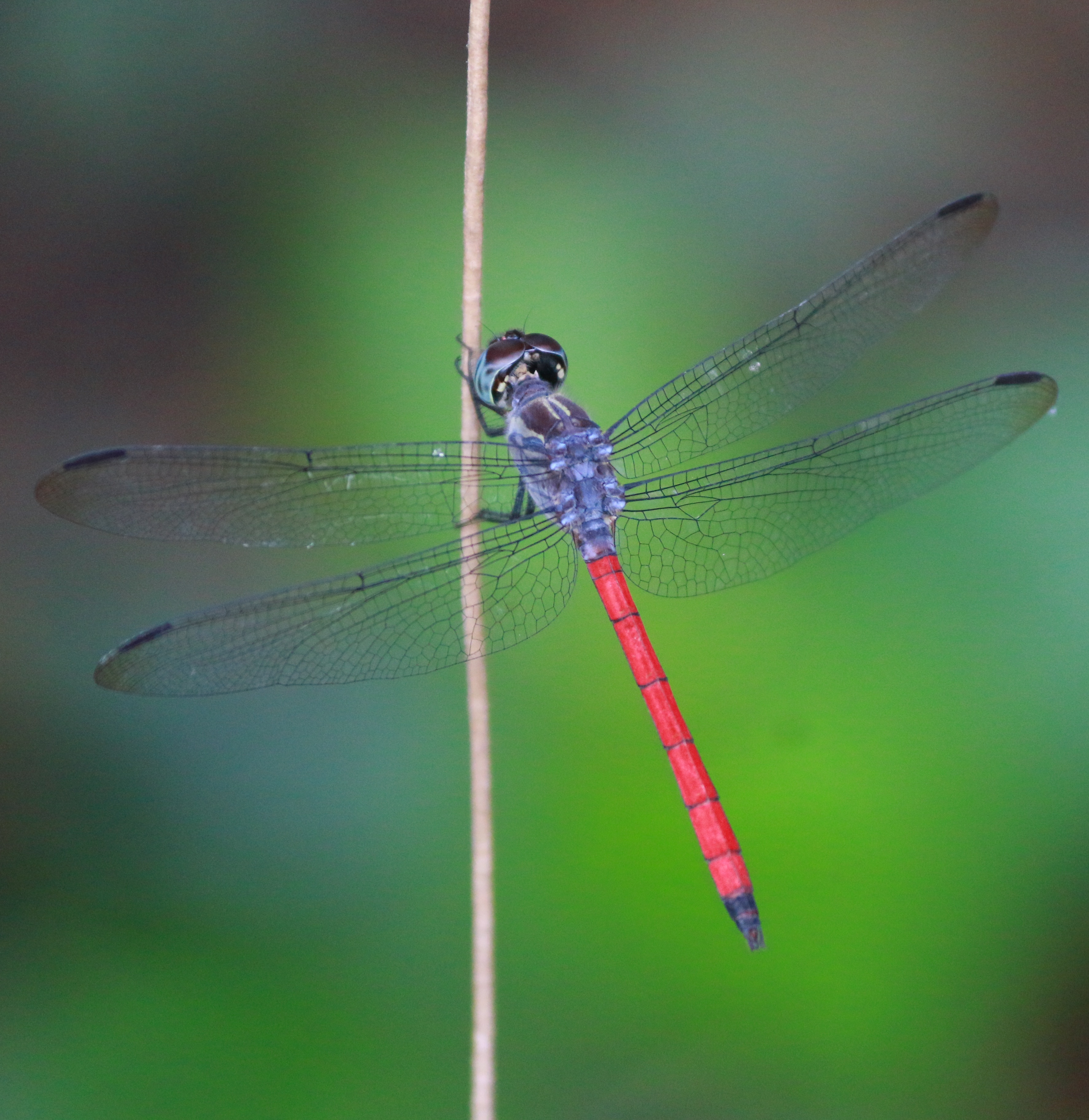 Lathrecista asiatica,Asiatic blood tail